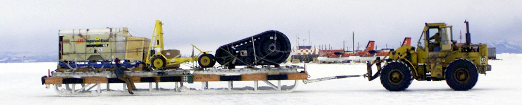 On location at McMurdo Station on Ross Island in Antarctica, a 10K-AT "Adverse Terrain" forklift loader moves a loaded cargo sled from the "flightline" to a staging area on the ice. The cargo arrived via C-141C from Christchurch, New Zealand. The C-141C from 452nd Air Mobility Wing, March Air Reserve Base, California, is part of Operation DEEP FREEZE 2001 in support of United States Antarctic Program.